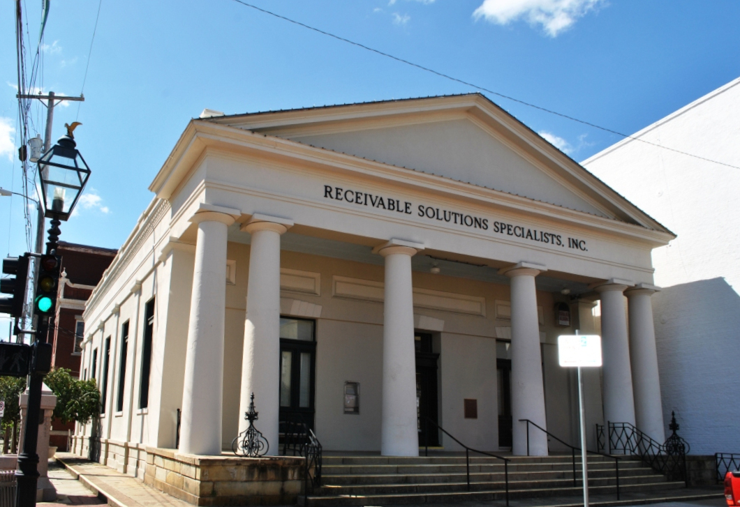 Natchez Bluffs and Under-the-Hill Historic District